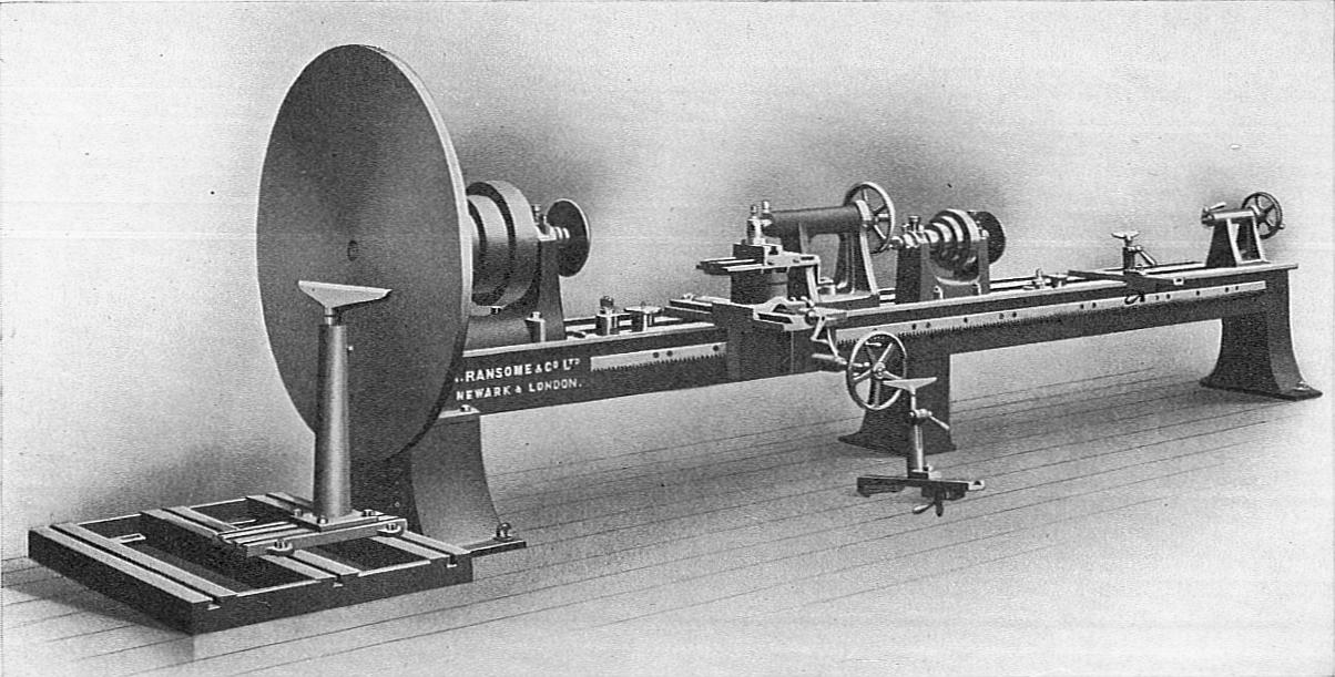 Fig. 58 Patternmaker's double lathe. This is used for both large and small items. The bed is 18 feet long overall and is provided with two powered headstocks and two tailstocks. In normal use, items up to 6 feet long may be turned simultaneously on each half as independent lathes. For long work, the tailstocks are slid to the far end of the bed and the full length used for one piece.